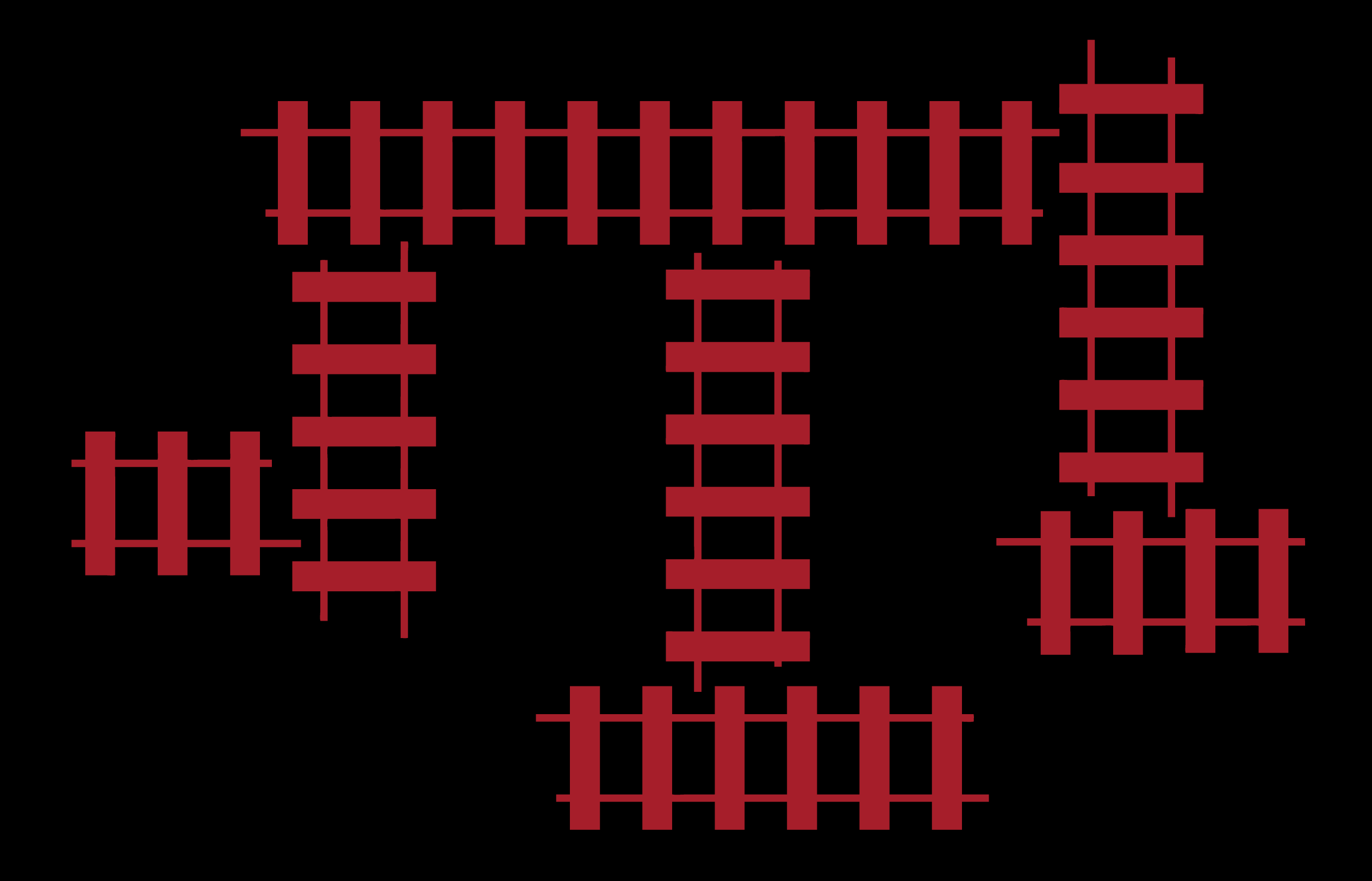 Coat of arms of Crimean Tatars (taraq tamga), stylized in the context of deportation of Crimean Tatars